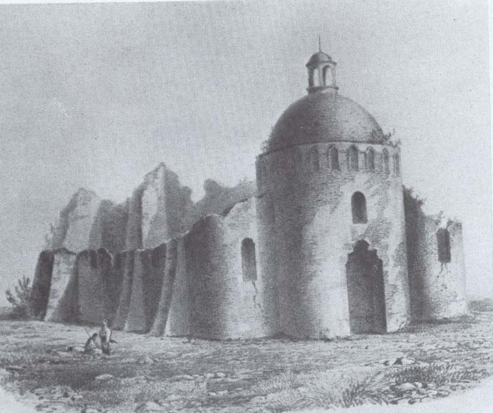 Church of Lutsk Orthodox Fellowship of True Cross in XIX cen.